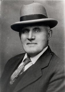 Jacob Lunau, reeve of Richmond Hill, Ontario